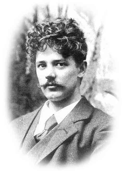 Edvard Eriksen (1876-1959) – Danish–Icelandic sculptor, best known as the creator of the Little Mermaid statue in Copenhagen.